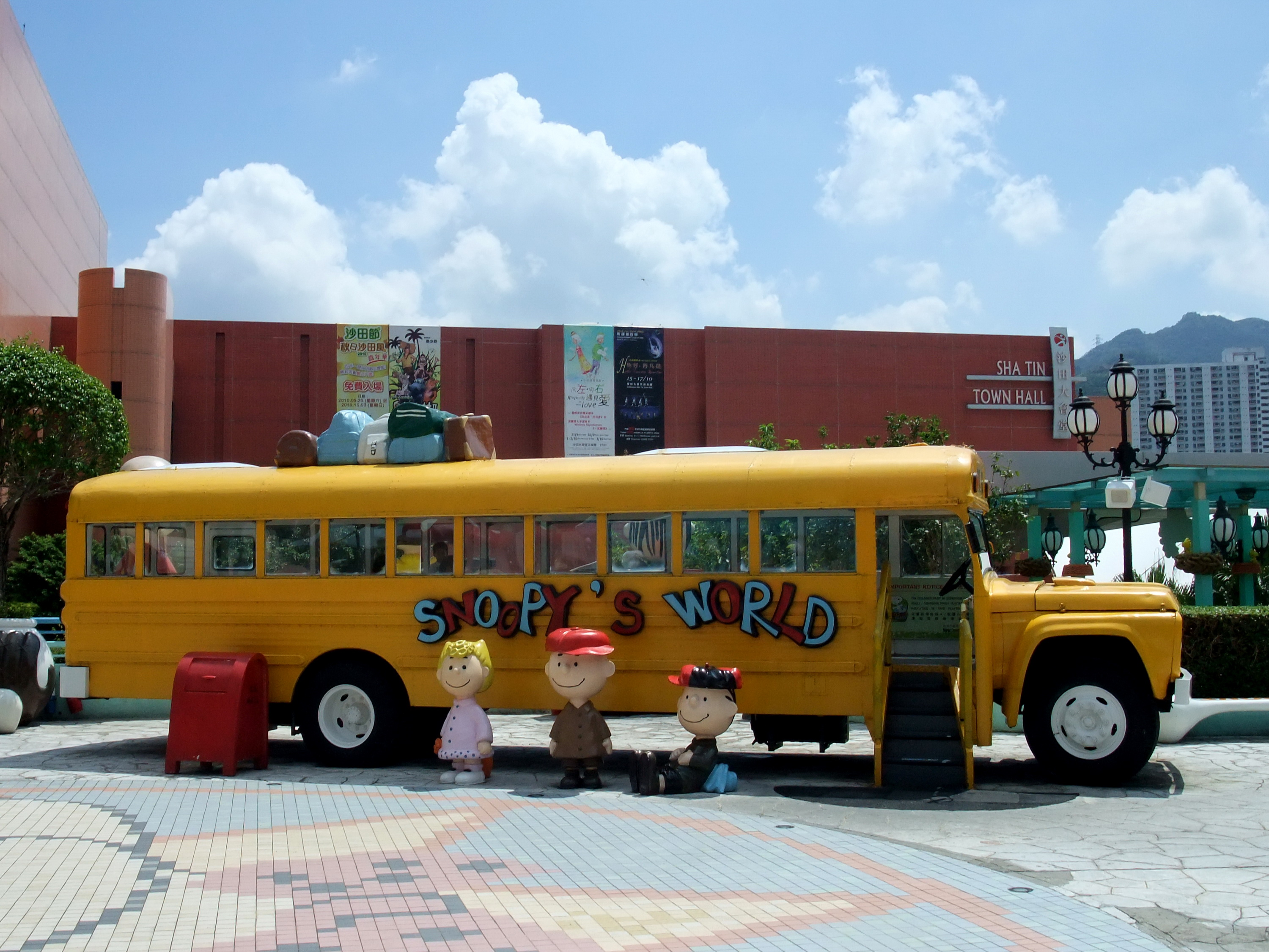 Snoopy's World at New Town Plaza in Shatin, Hong Kong.